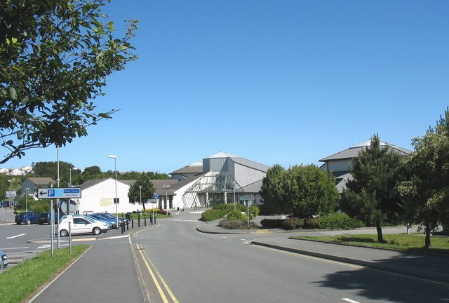 Ysbyty Penrhos Stanley, Holyhead This modern hospital, which specializes in the care of the elderly, was built 1996 to replace the Stanley Sailor's Hospital on Salt Island and the Valley Hospital (the former Valley Workhouse).